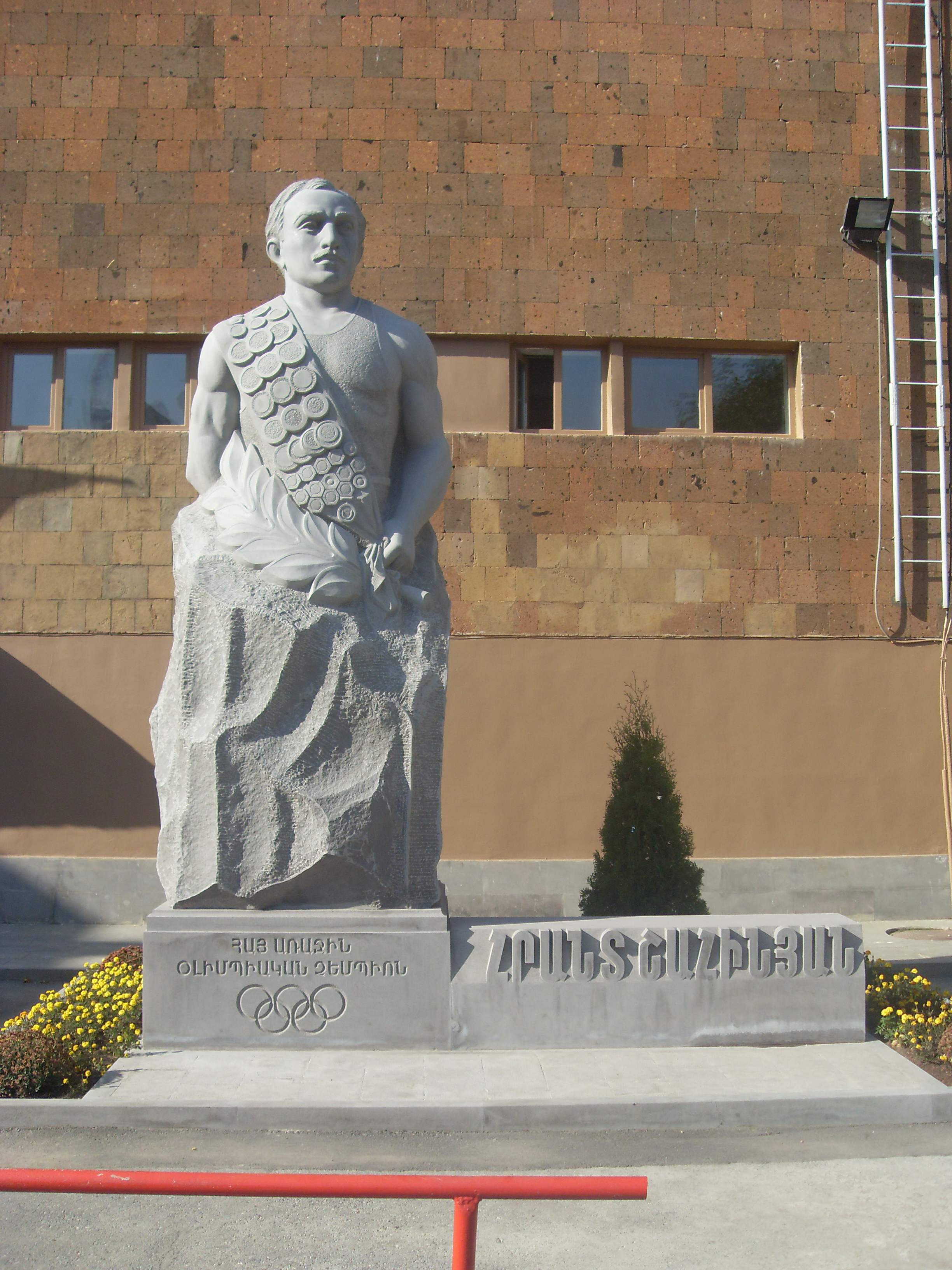 Monument of first Armenian olympic champion Hrant Shahinyan, Yerevan, 2014.